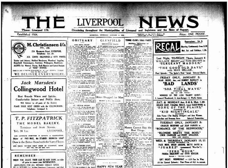 Sample of part of a page from the Thursday 4 January 1940 edition of The Liverpool News newspaper